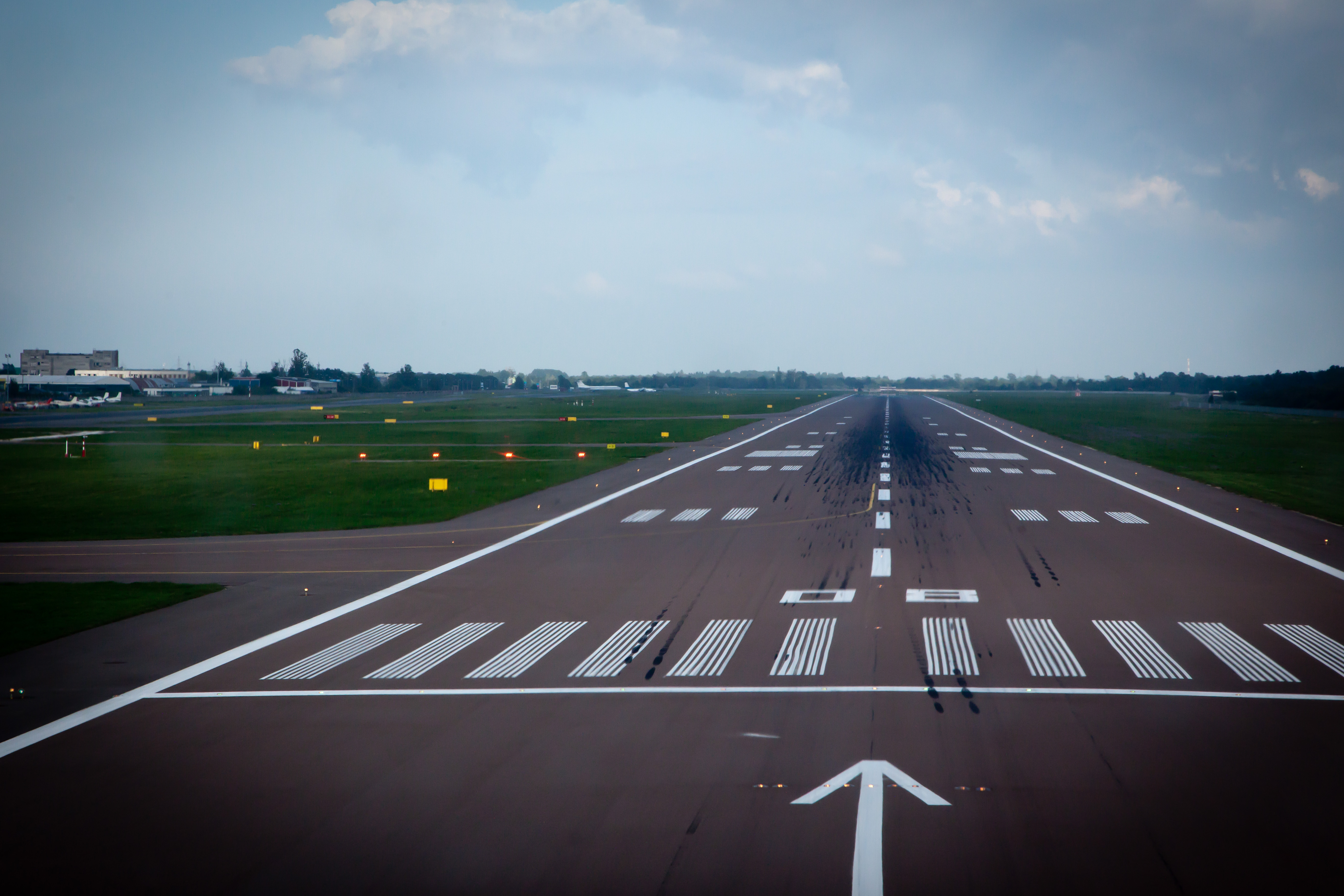 Runway 08 at Lennart Meri Tallinn Airport